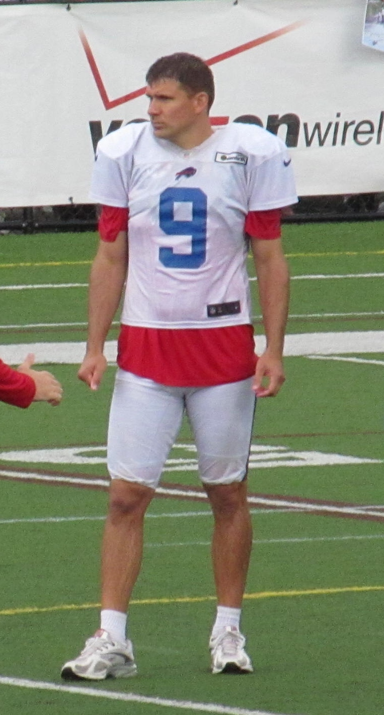 Buffalo Bills placekicker Rian Lindell at 2012 training camp at St. John Fisher College, Pittsford, New York